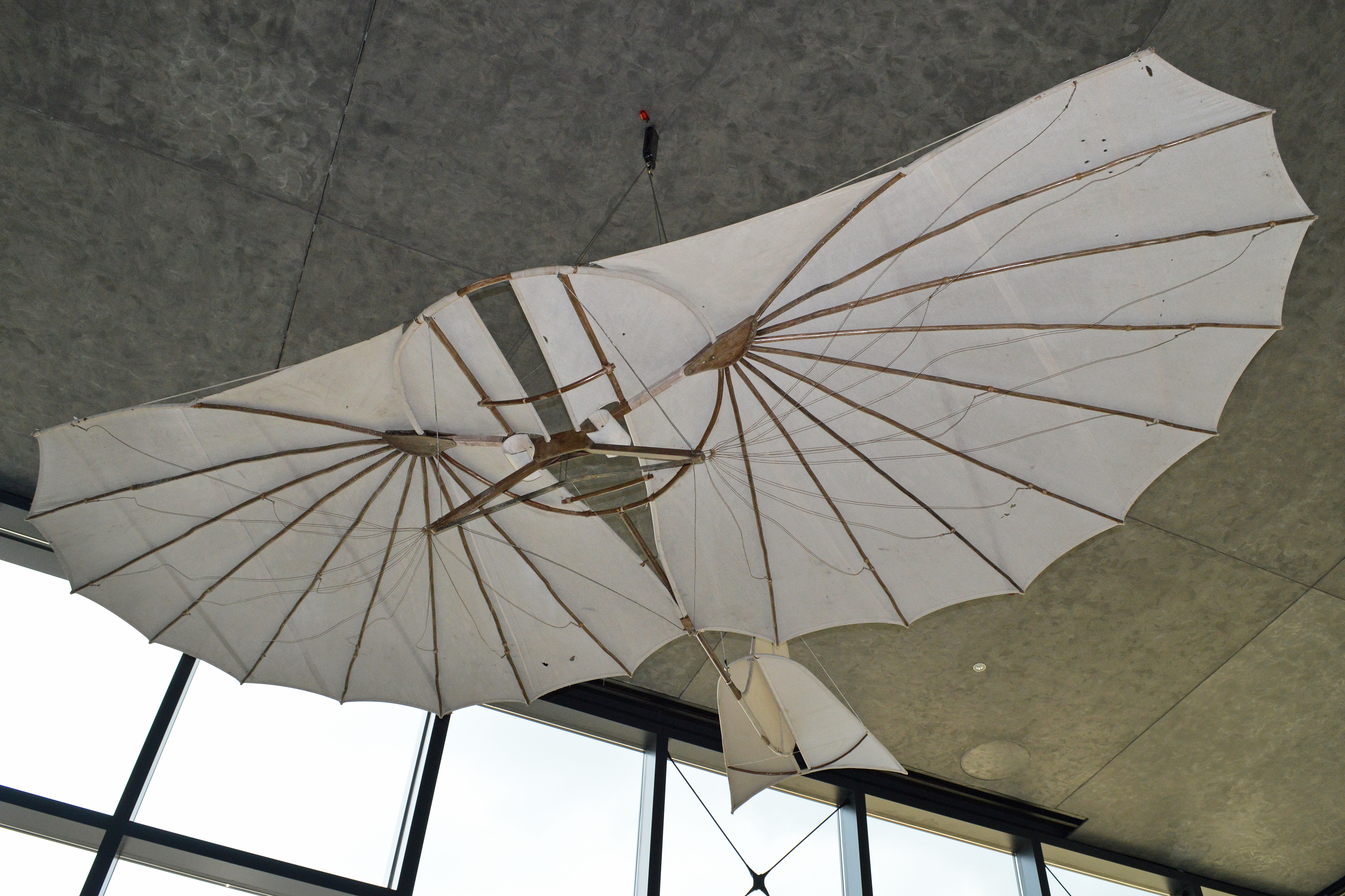 Designed by Otto Lilienthal in the late 19th Century. Nine were built between 1893 and 1896, making it the first flying machine to go into serial production. Normalsegelapparat is German for 'Normal Soaring Apparatus'. This replica is on display suspended in the new entrance building at the Muzeum Lotnictwa Polskiego Krakow, Poland. 23-08-2013